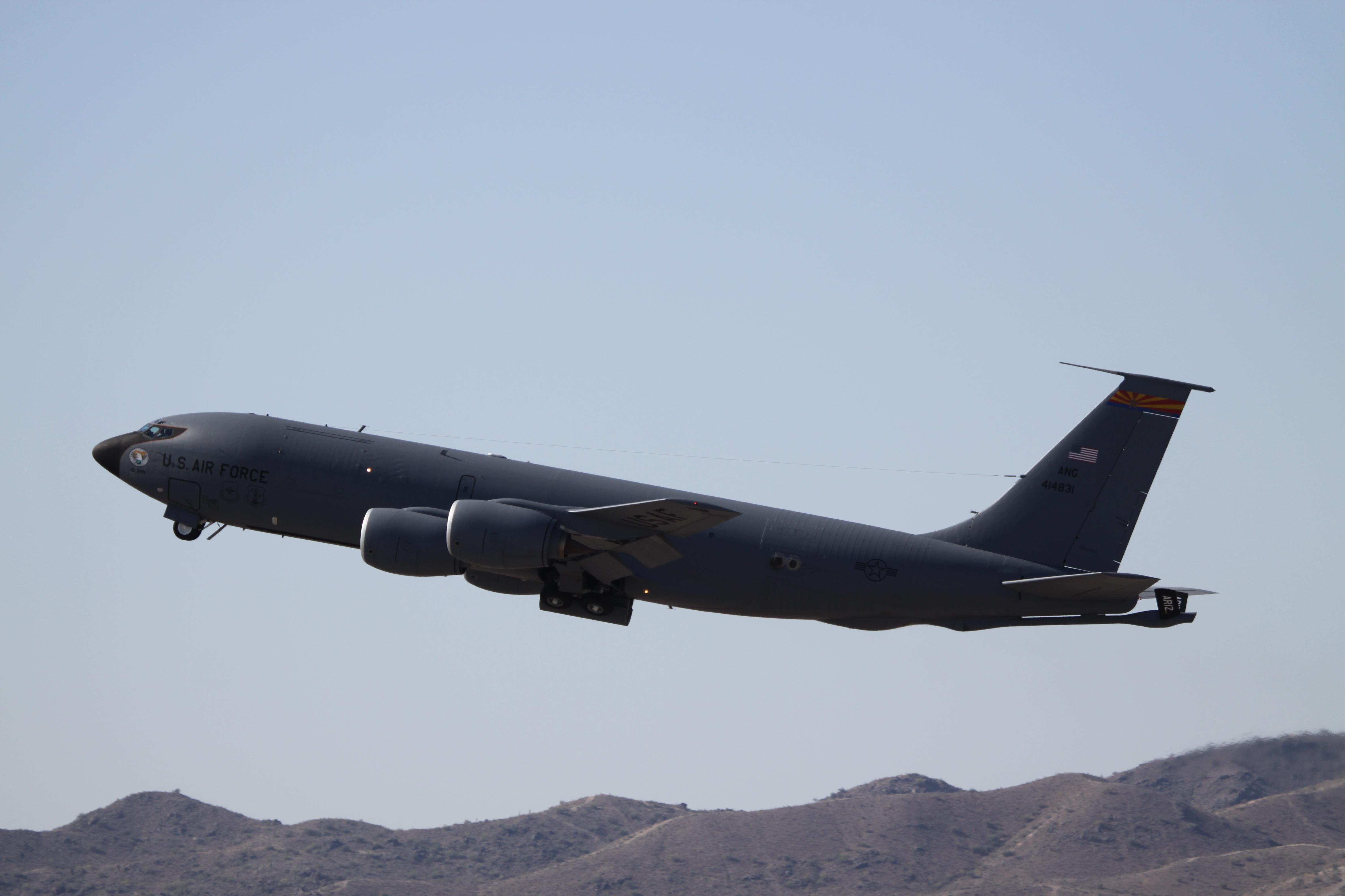 At Phoenix Sky Harbor International